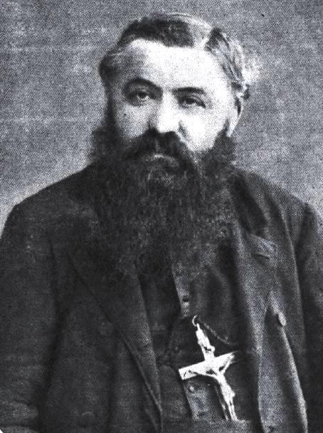 Portrait of the Occitan writer M.A. Bongarçon